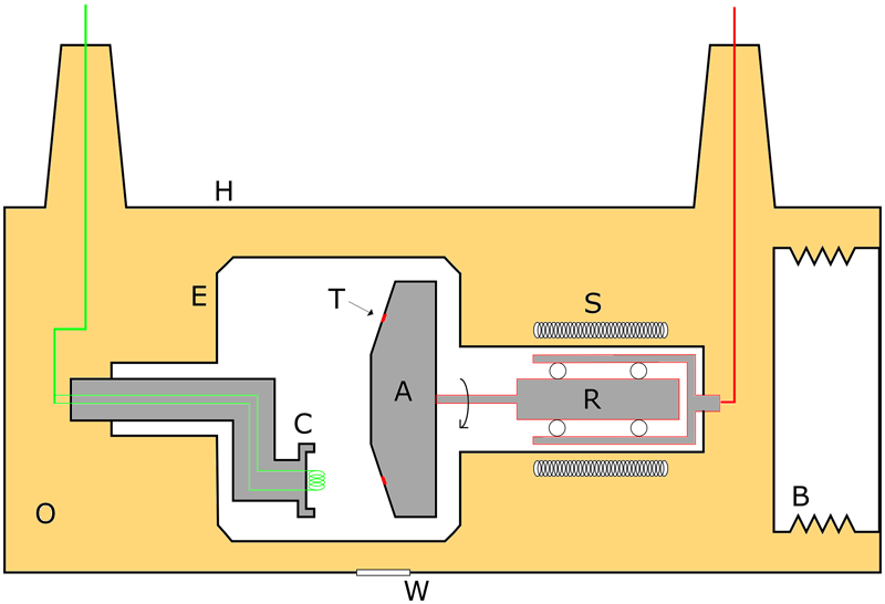 "Simplified schematic of a rotating anode X-ray tube envelope and housing. The rotating anode (A), spins via the rotor (R) and its bearings, creating a focal area of X-ray production around the anode target (T). The cathode (C), is shown with the filament circuit in green. All of these components are contained within the evacuated tube envelope (E). Just outside of the envelope is the stator (S), which induces rotation of the rotor. The tube envelope is surrounded in a dielectric cooling oil (O), with an expansion bellows (B) typically connected to a regulator switch, preventing over-expansion of the heated oil. X-ray beam leaves through the tube window (W), typically Aluminum or Beryllium while the rest of the housing will be lead or copper to attenuate stray X-rays."